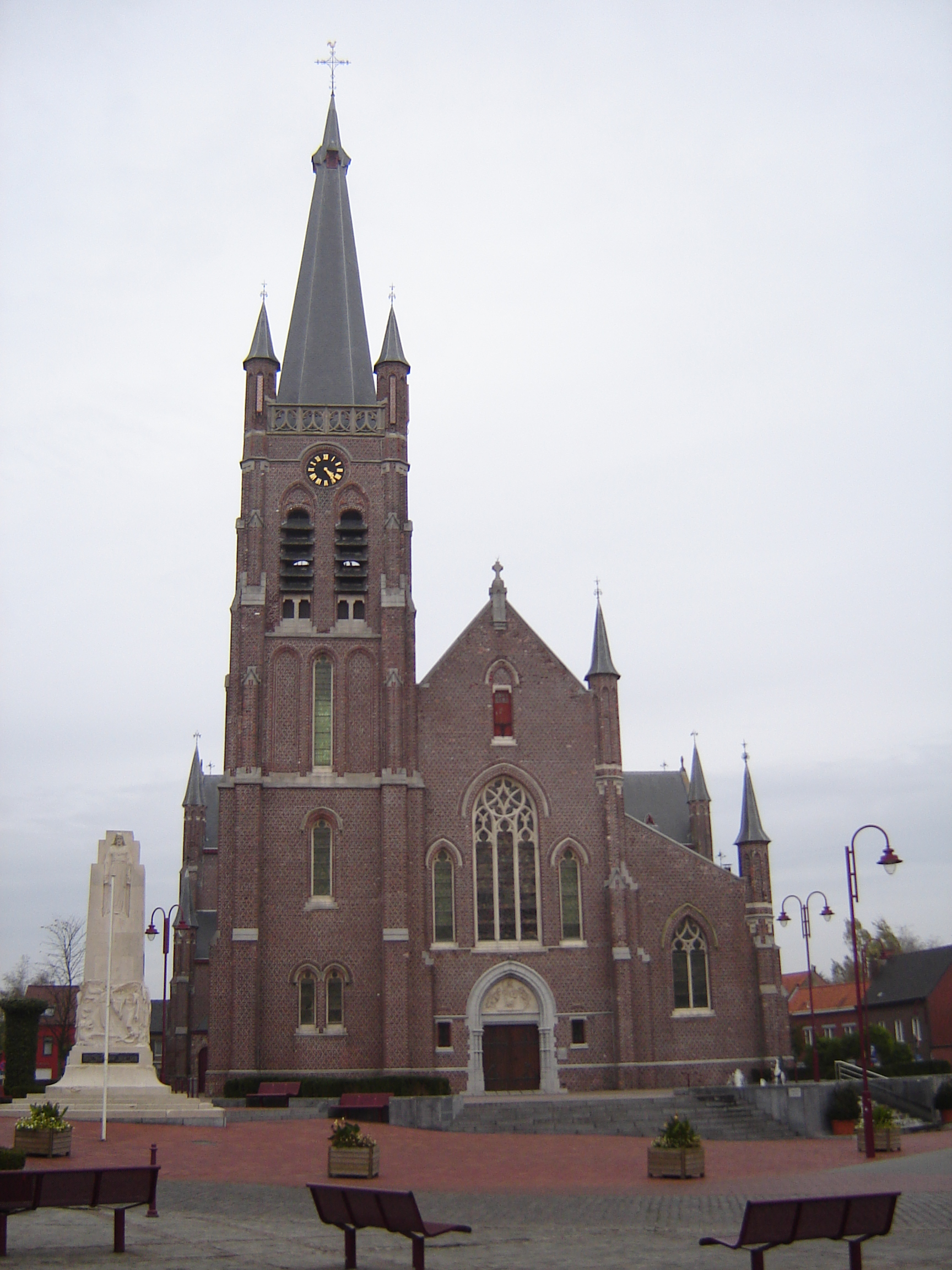 Church of Saint James in Lichtervelde. Lichtervelde, West Flanders, Belgium